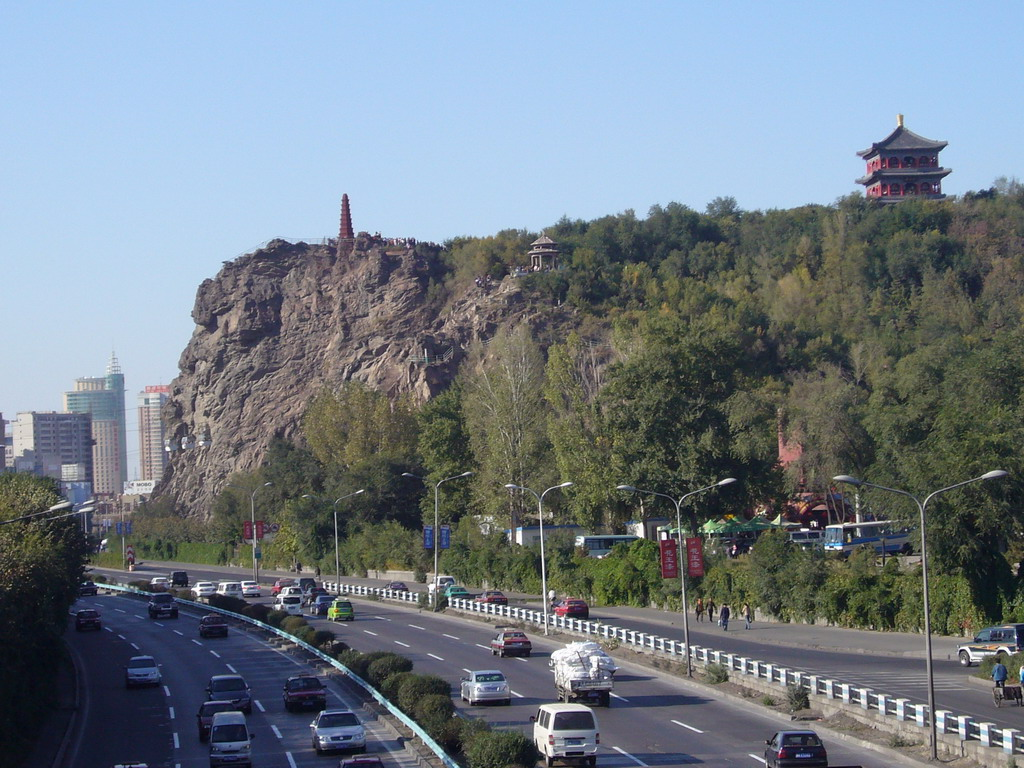 Hong Shan, symbolic spot of Urumqi, Xinjiang, China